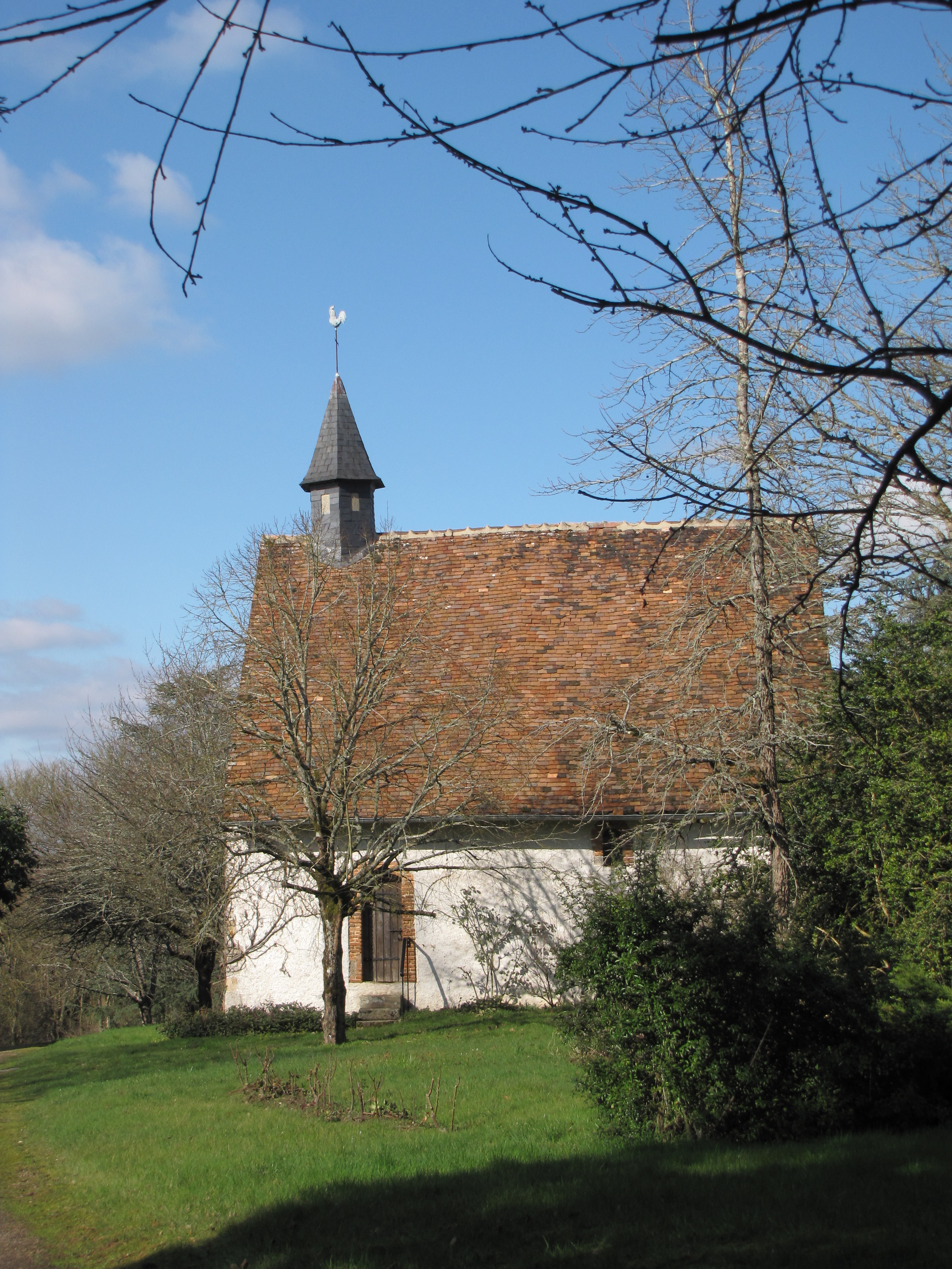 Saint-Martin-sur-Ouanne, Yonne, Bourgogne, France? Ponnessant chapel. Ponnessant, now a small hamlet, is located on the ford that was used by the old salt route from the Loire to Auxerre and the Yonne river, dating from long before the Romans' time. From Antiquity there was a fructuous toll, and Ponnessant had two churches and one chapel - indicating a noticeable size for a country place. The original name of the place was Pont Maxentius, and wooden beams were found during the building of a bridge over the ford in the XIXth century. The place was utterly destroyed by Robert Knolle in 1360.